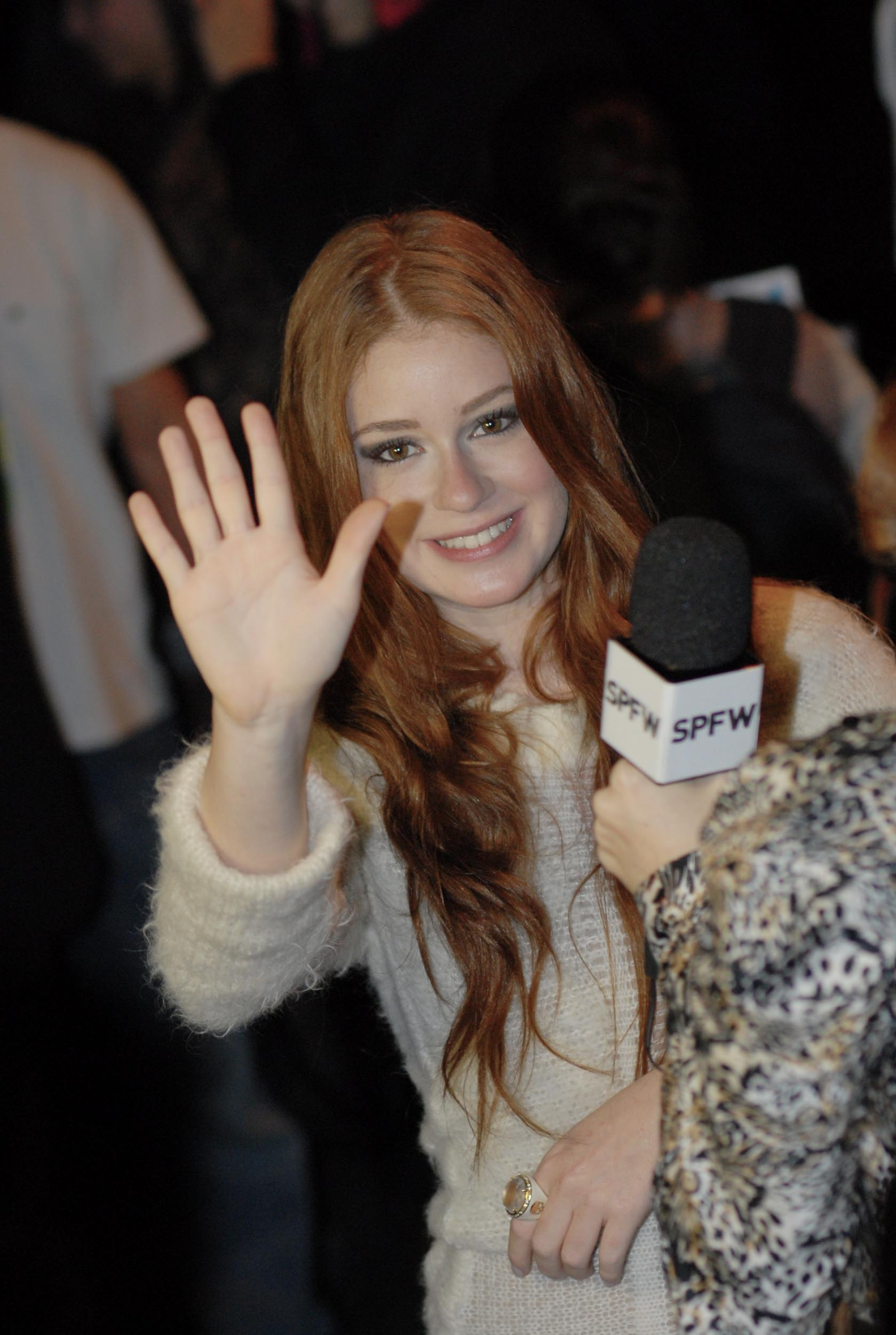 Marina Ruy Barbosa, Brazilian actress, at São Paulo Fashion Week de 2011.